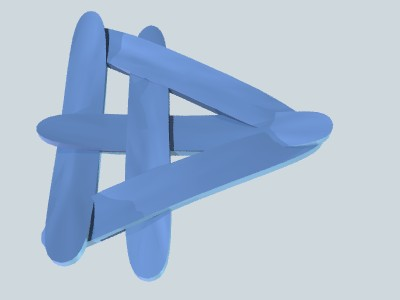 Created by author with Art of Illusion Illustration of simple popsicle stick arrangement which snaps apart on impact.